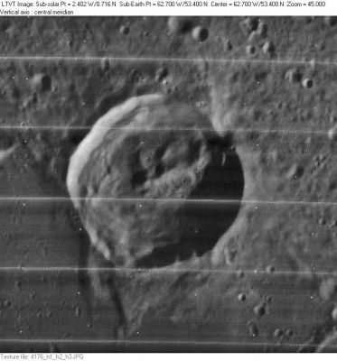 Markov lunar crater - LO-IV-176H image